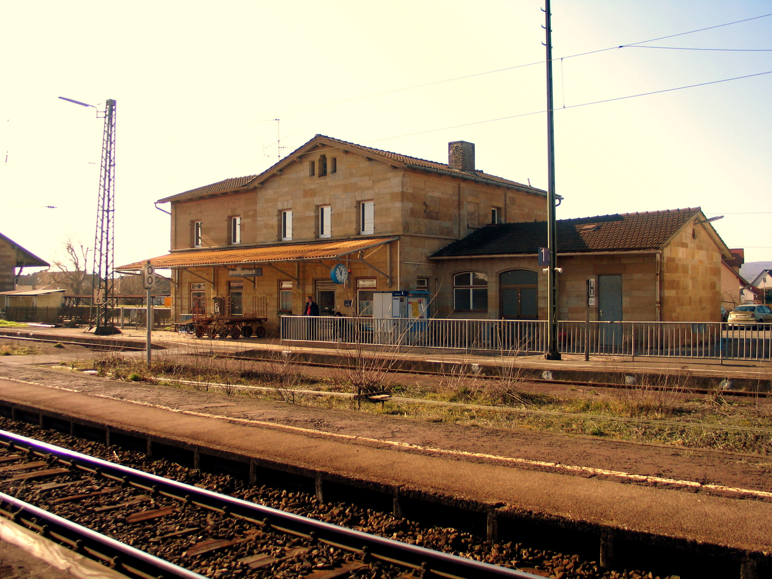 Breitengüßbach: Train station area for public transport.